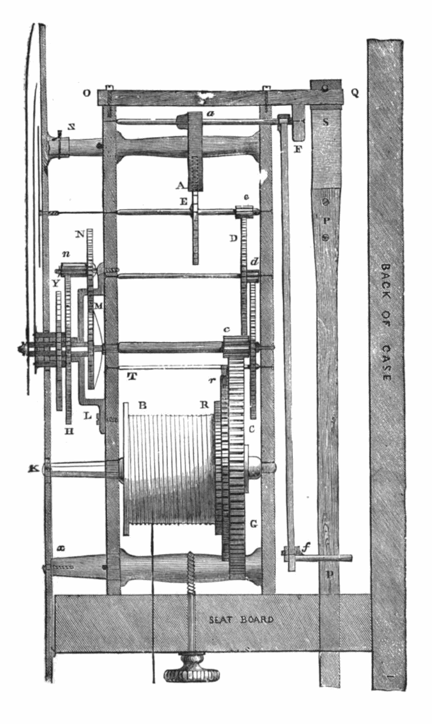 Drawing of cross section of English longcase (grandfather) clock movement from the mid-1800s. It is described as: "The going part of a common regulator, or house-clock of superior character... The movement is that found in long-cased hall clocks..." This is a weight driven, pendulum clock with a one second (1 meter) pendulum, anchor or deadbeat escapement, second hand, and no striking mechanism. Drawing also appears in Paul Nooncree Hasluck (1889) The Clock Jobber's Handybook, Crosby, Lockwood & Son, London, p.63, fig.14 with more information in text. Alterations: removed figure number. Labeled parts are identified in the text as: (A) escapement pallet (a) escapement arbor (C) center wheel (c) center wheel pinion (D) second wheel (d) second wheel pinion (E) scape wheel (e) scape wheel pinion (F) crutch (f) fork (G) great wheel (H) hour wheel (K) square winding arbor (L) bridge (M) minute wheel (N),(n) Motion works (together with M and H) (P) pendulum (Q) pendulum support (R),(r) maintaining power ratchets (S) pendulum suspension spring (X) lower pillar (Y) snail (only used in striking clocks) (Z) top pillar